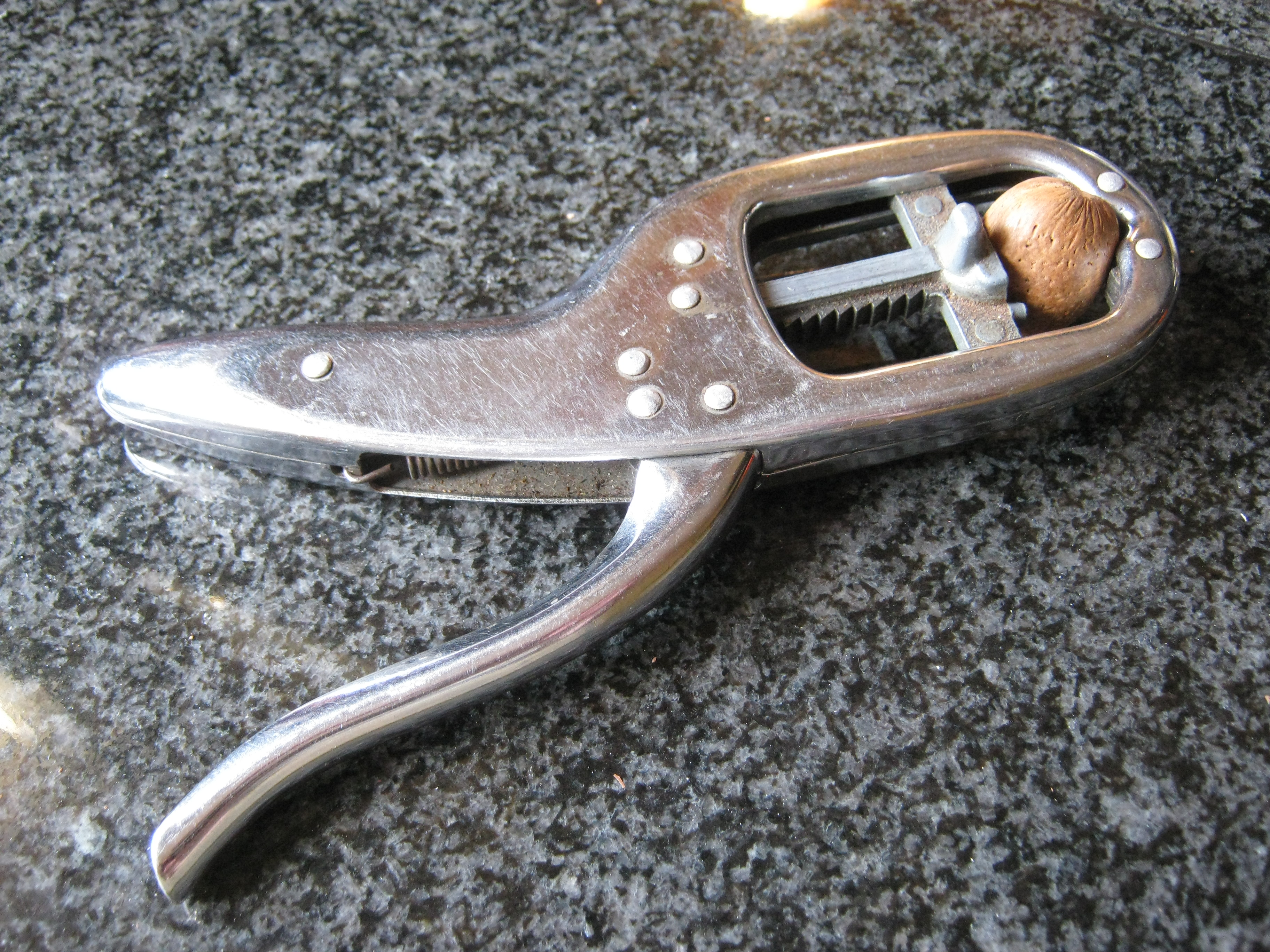 A Heatmaster Crackerjack nutcracker. This one thought to have been manufactured in the 1960s. It works by squeezing the handle which compresses the cradle in which the nut is held. A ratchet allows the handle to release while holding the pressure on the nut and the handle can then be squeezed again until the nut breaks. It has accurate pressure application to the nut so the shell does not 'explode'. The cradle can be pulled down to take the next nut by the small stub visible on one side of the cradle.